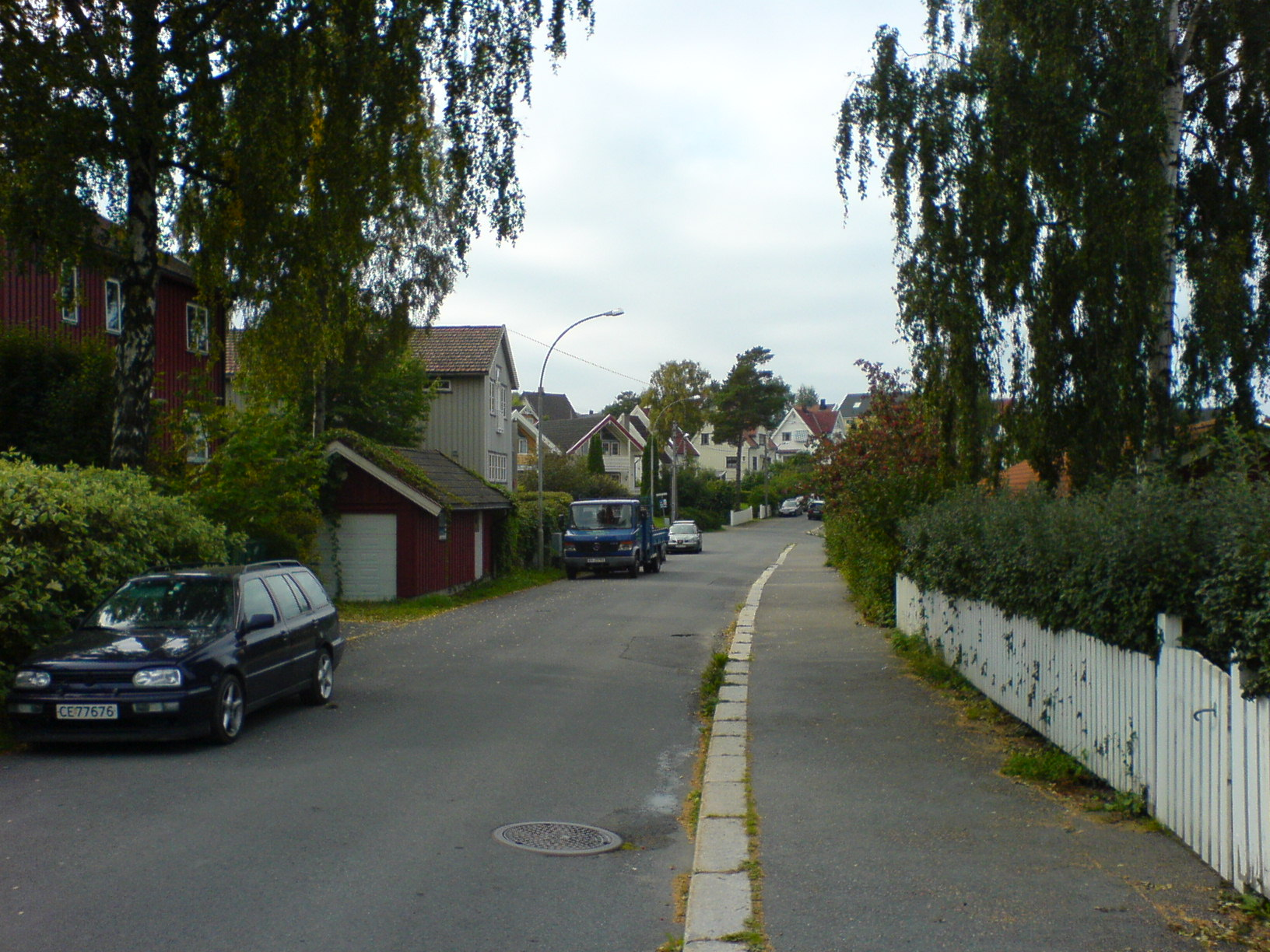 Shows a smal piece of the street Røhrts vei located in Norway in the Capital Oslo (Nordstrand/Ekeberg).